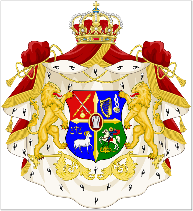 COA of Bagrationi of Imereti